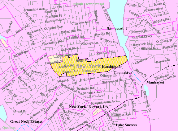 U.S. Census 2000 reference map for Kensington, New York